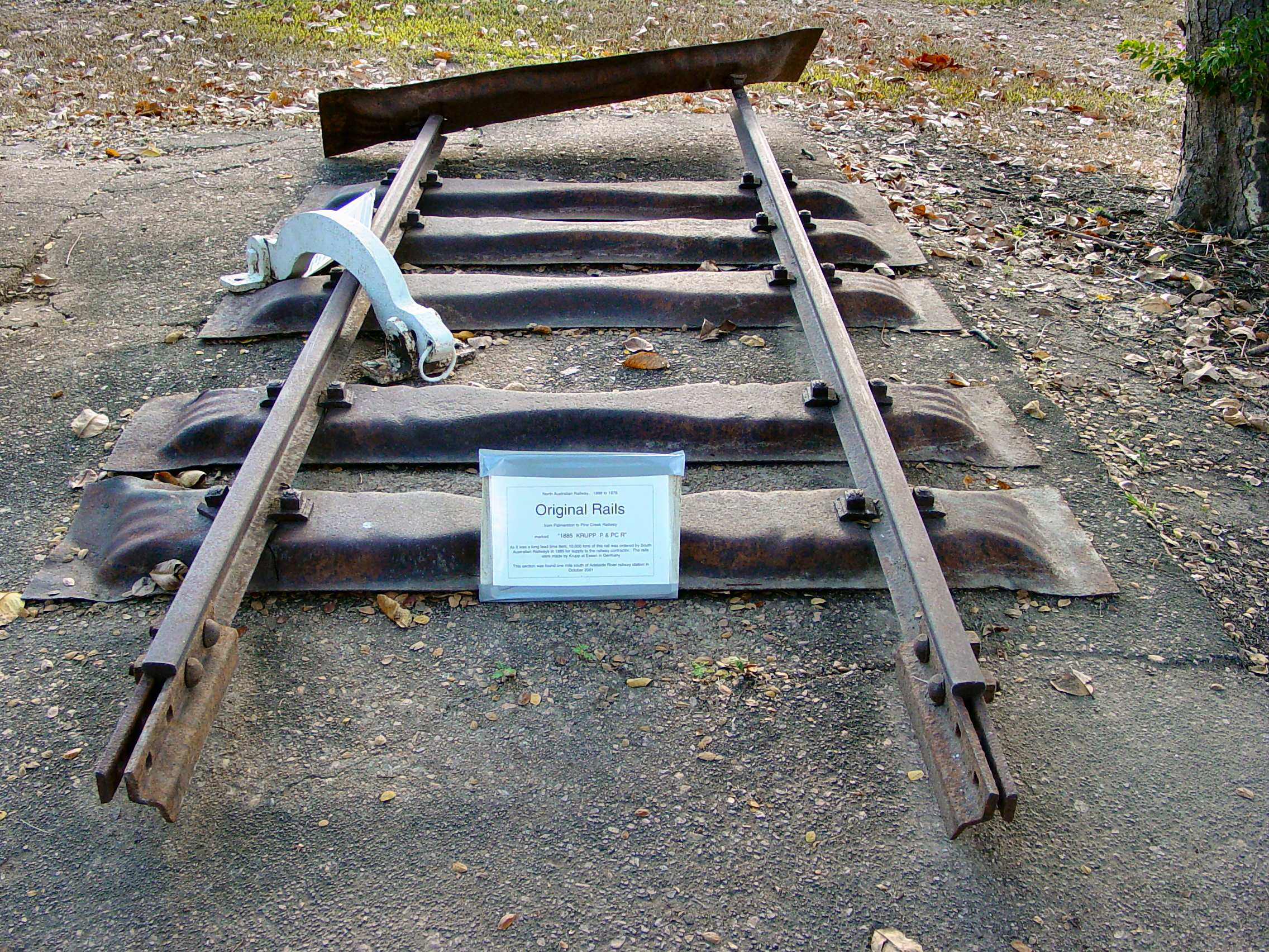 Photo taken and supplied by Brian Voon Yee Yap. This steel track was produced by Krupp for a segment of the South Australian Railways. It is now at the Rail Museum at Adelaide River, Northern Territory and relates to the original Pine Creek Railway running south from Darwin, Northern Territory. The gauge is 3' 6" (1067mm). The sign in the photo reads as follows: North Australian Railway 1888 to 1976 Original Rails from Palmerston to Pine Creek Railway marked "1885 KRUPP P & PC R" As it was a long lead time item, 10,000 (tons?) of this rail was ordered by South Australian Railways in 188_ for supply to the railway contractor. The rails were made by Krupp at Essen in Germany. This section was found one mile south of Adelaide River railway station in October 2001.